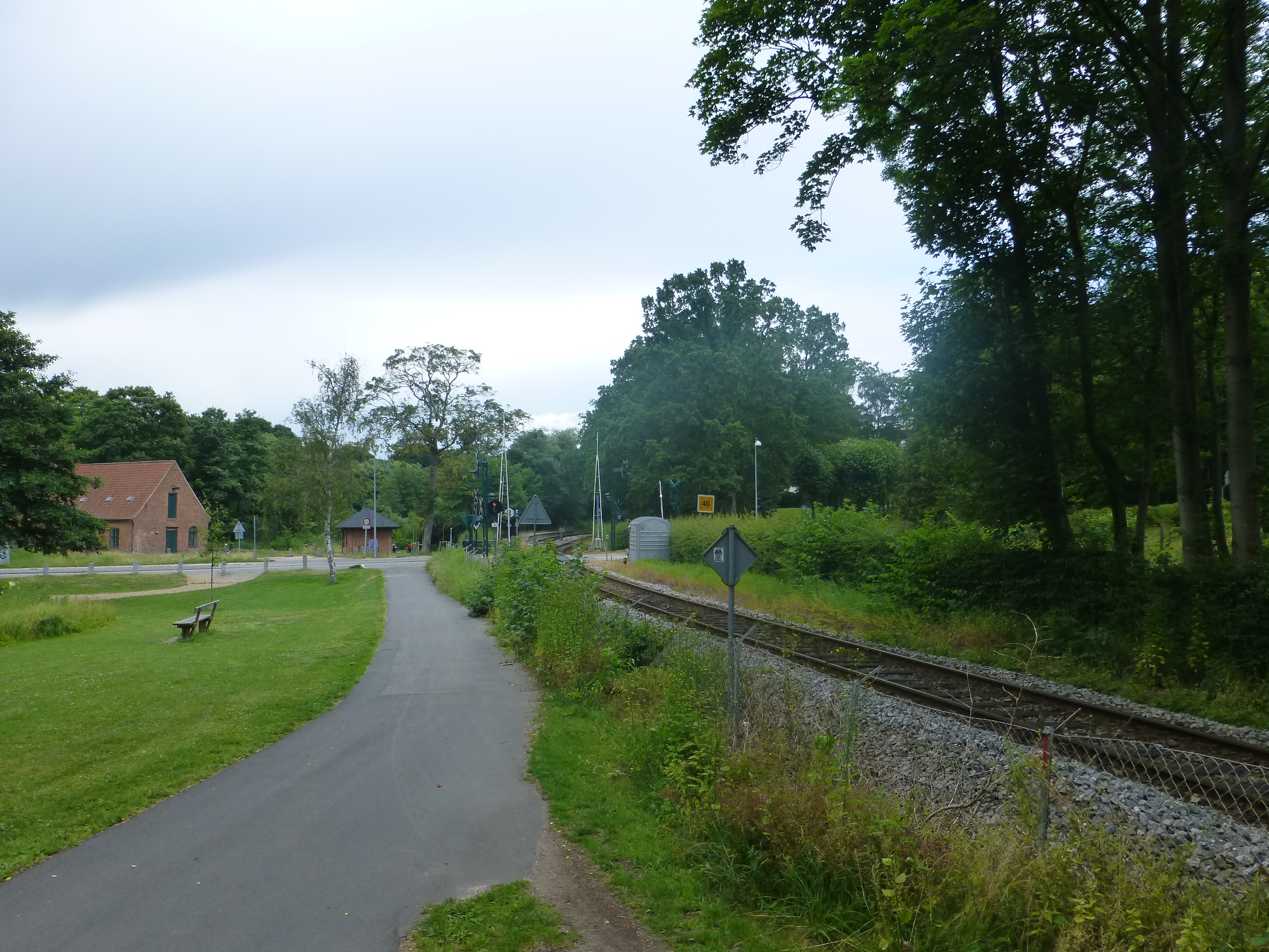 Fuglevad Station on the private railway Nærumbanen between Jægersborg and Nærum in Copenhagen.